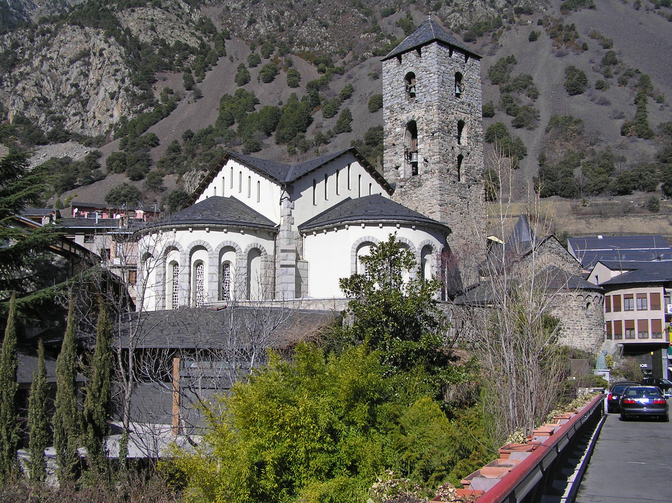 View of church of Sant Esteve in the old quarter of Andorra la Vella from the plaza in the Centre de Congrossos